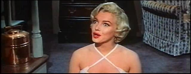 Marilyn Monroe asking a question in the theatrical trailer of the 1955 film The Seven Year Itch directed by Billy Wilder.